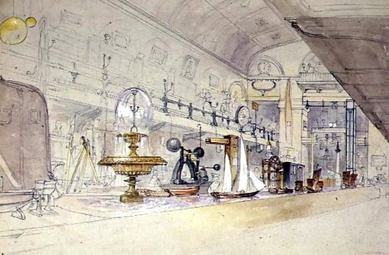 Interior of the Regent street Polytechnic as drawn by G.F.Sargeant and published in 1847. Category:University of Westminster